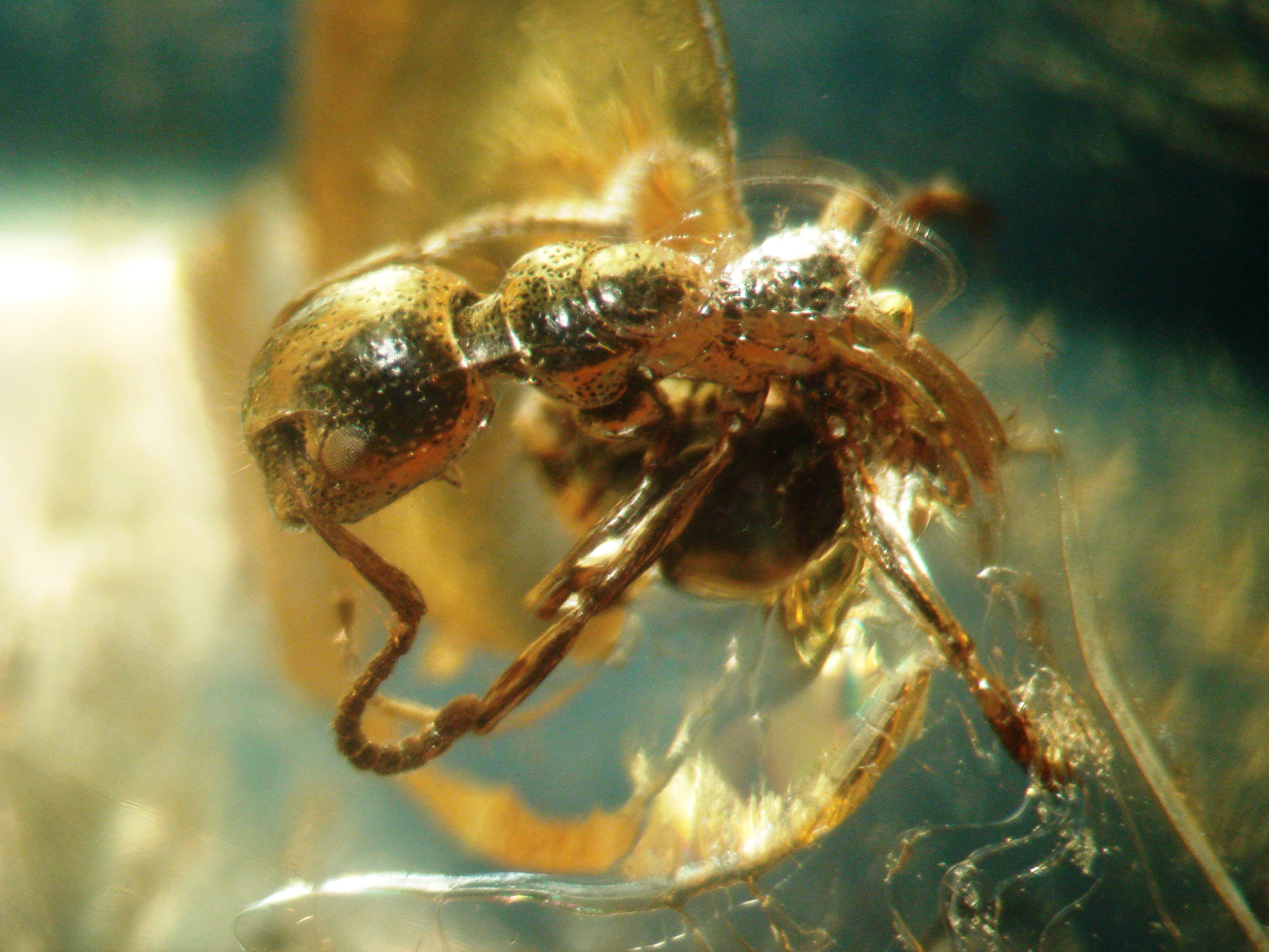 Baltic amber inclusions - 40-50 million years old - Ant (Hymenoptera, Apocrita, Vespoidea, Formicidae, ...?) About 4 mm long